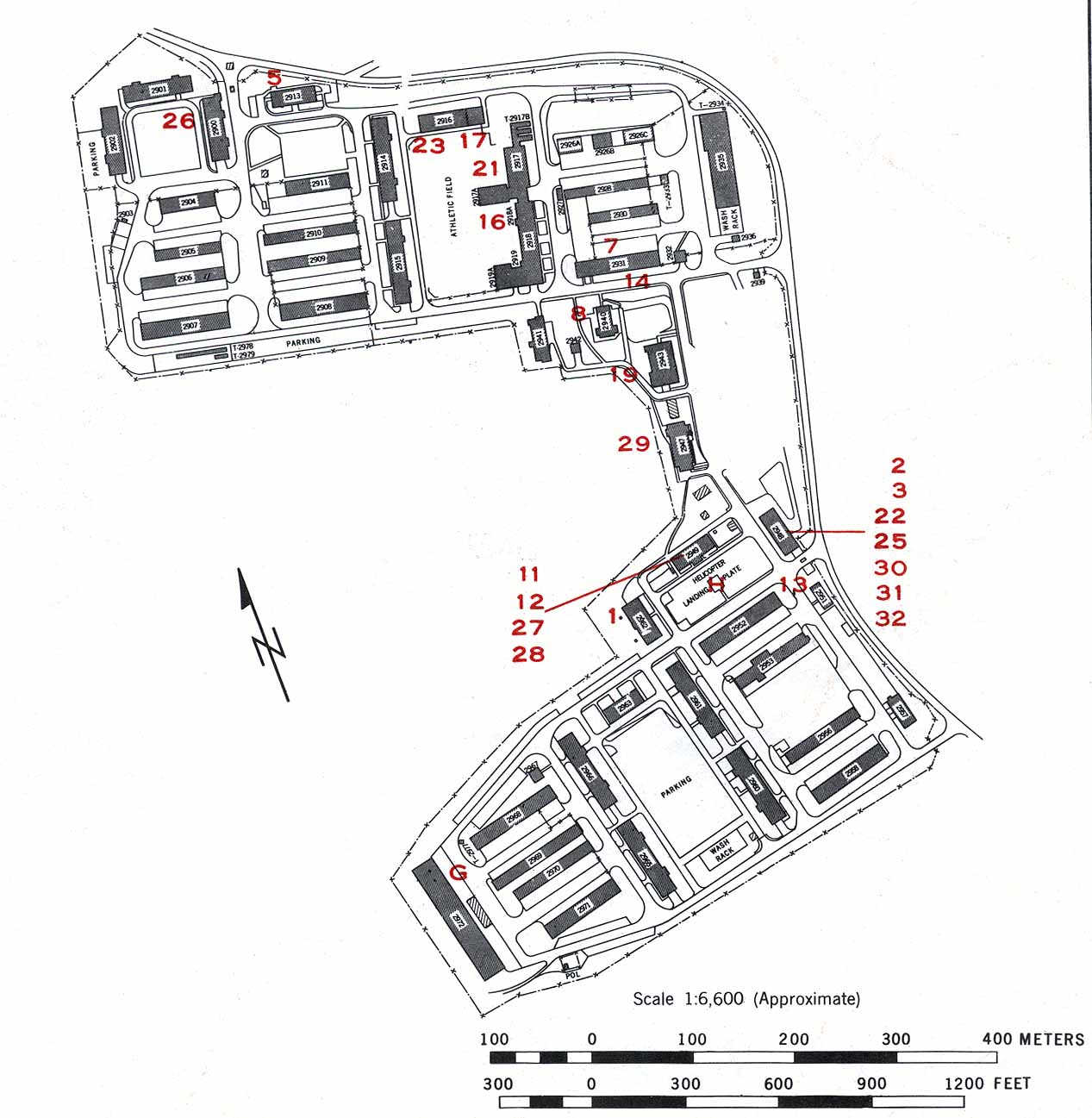 1:50000 Special map of the US-Army used Panzerkaserne in Böblingen. Made by 649th Engineers Battalion (US Army)